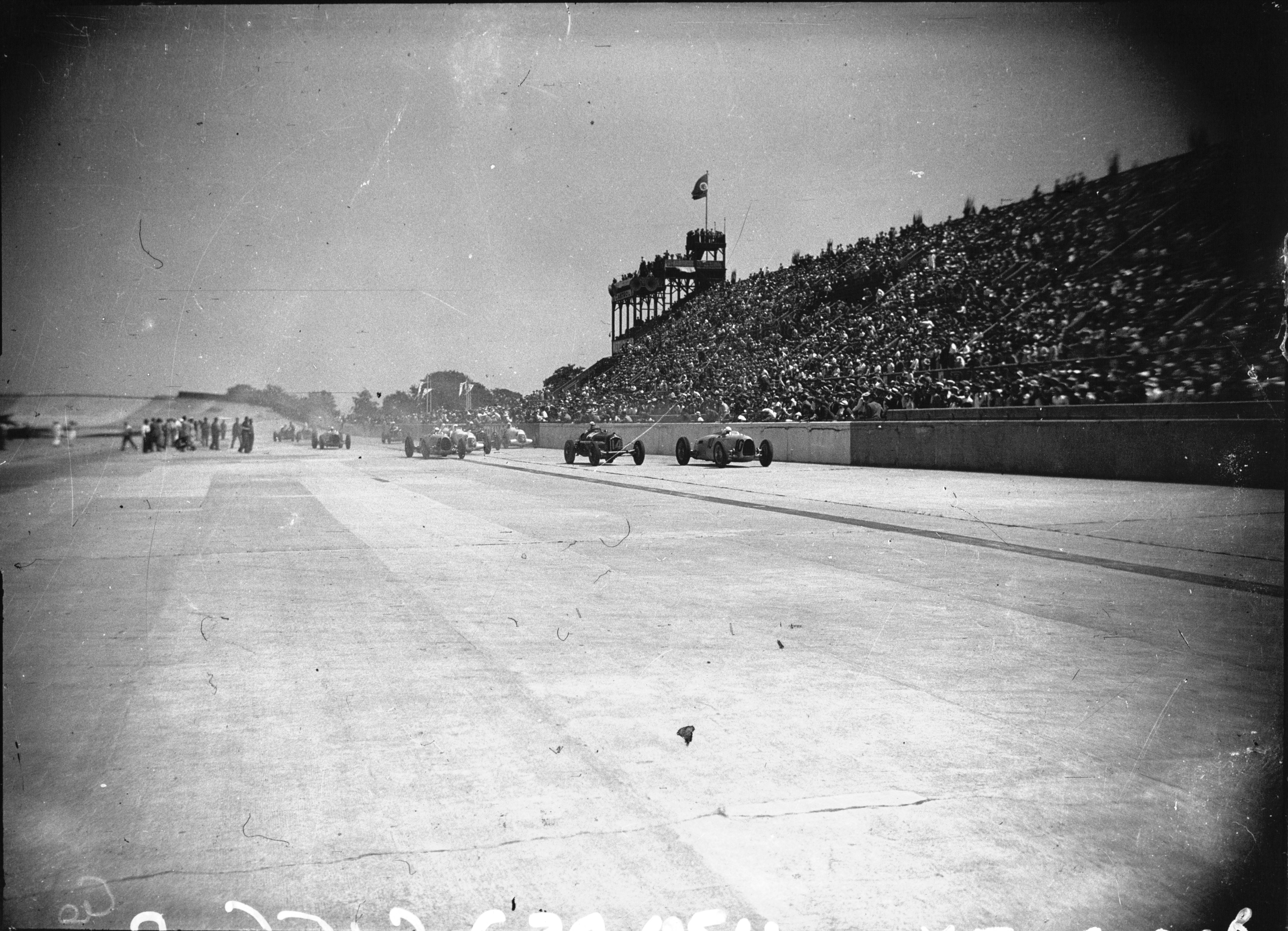 Start of the 1935 French Grand Prix